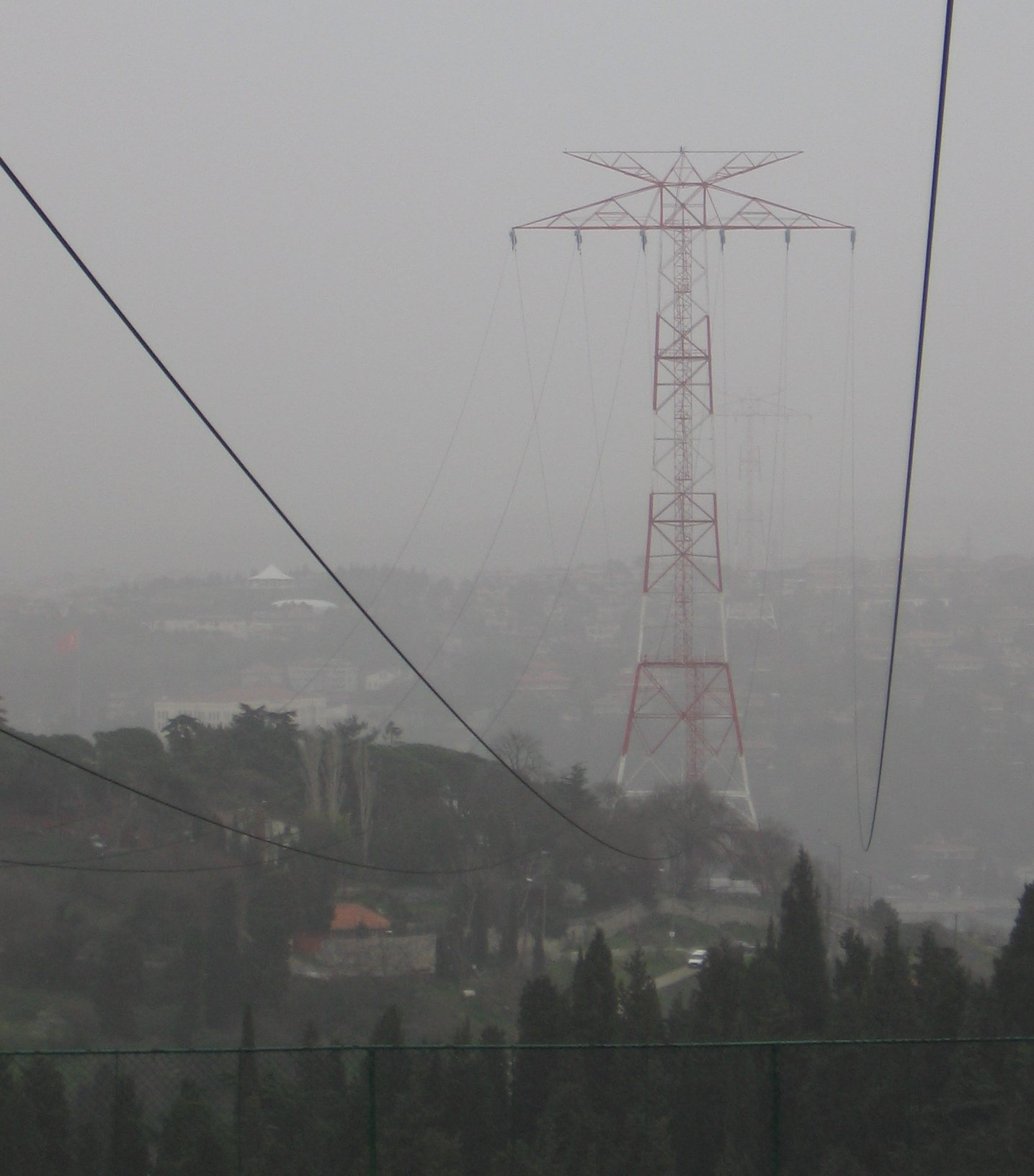 154 kV Bosphorous crossing - looking E from Etiler